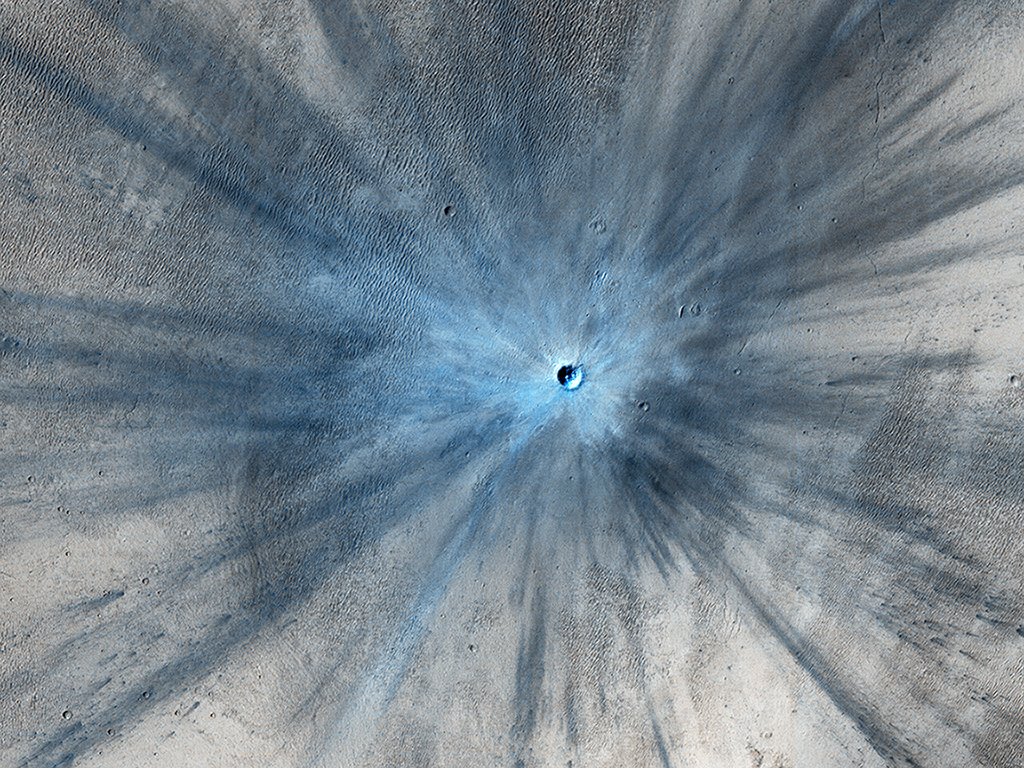 A Spectacular New Martian Impact Crater A dramatic, fresh impact crater dominates this image taken by the High Resolution Imaging Science Experiment (HiRISE) camera on NASA's Mars Reconnaissance Orbiter on Nov. 19, 2013. Researchers used HiRISE to examine this site because the orbiter's Context Camera had revealed a change in appearance here between observations in July 2010 and May 2012, bracketing the formation of the crater between those observations. The crater spans approximately 100 feet (30 meters) in diameter and is surrounded by a large, rayed blast zone. Because the terrain where the crater formed is dusty, the fresh crater appears blue in the enhanced color of the image, due to removal of the reddish dust in that area. Debris tossed outward during the formation of the crater is called ejecta. In examining ejecta's distribution, scientists can learn more about the impact event. The explosion that excavated this crater threw ejecta as far as 9.3 miles (15 kilometers). The crater is at 3.7 degrees north latitude, 53.4 degrees east longitude on Mars. Before-and-after imaging that brackets appearance dates of fresh craters on Mars has indicated that impacts producing craters at least 12.8 feet (3.9 meters) in diameter occur at a rate exceeding 200 per year globally. Few of the scars are as dramatic in appearance as this one. This image is one product from the HiRISE observation catalogued as ESP_034285_1835. Other products from the same observation are available at HiRISE is one of six instruments on NASA's Mars Reconnaissance Orbiter. The University of Arizona, Tucson, operates HiRISE, which was built by Ball Aerospace & Technologies Corp., Boulder, Colo. NASA's Jet Propulsion Laboratory, a division of the California Institute of Technology in Pasadena, manages the Mars Reconnaissance Orbiter and Mars Science Laboratory projects for NASA's Science Mission Directorate, Washington.